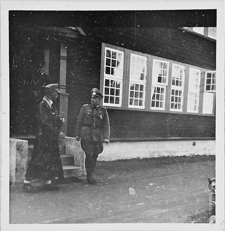 Image from "Photo Album from Terboven's journey to Nothern Norway and Finland 10–27 July 1942" (Mit dem Reichskommissar nach Nordnorwegen und Finnland 10. bis 27. Juli 1942), 375 images uploaded to www. by Riksarkivet (National Archives of Norway) 2012. See scanned album here